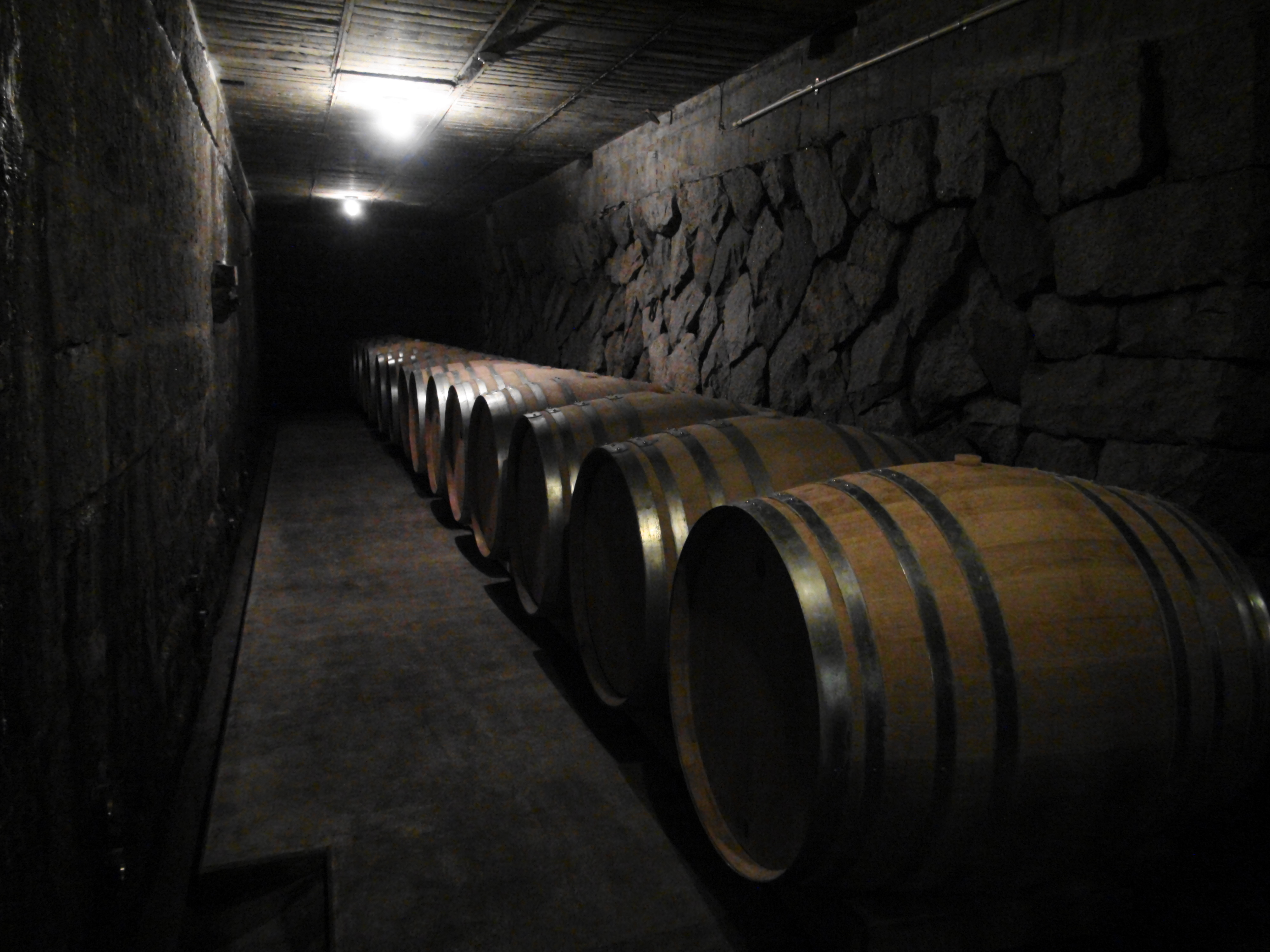 Underground passageway Lumiere Winery